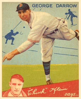 1934 Goudey baseball card of George Darrow of the Philadelphia Phillies #87. PD-not-renewed.